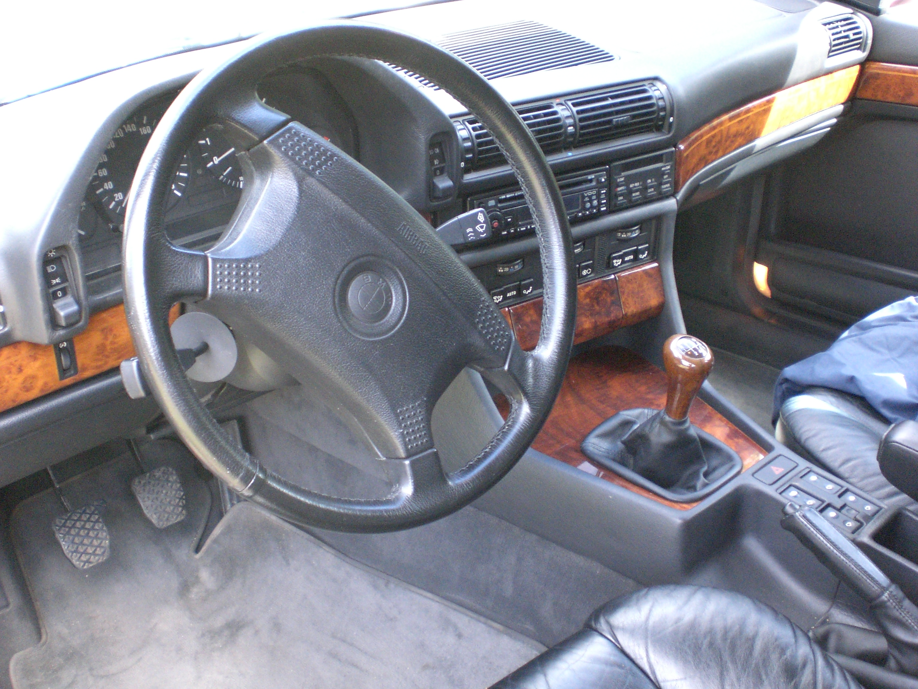 The dashboard of a BMW E32 7-series with manual gearbox.